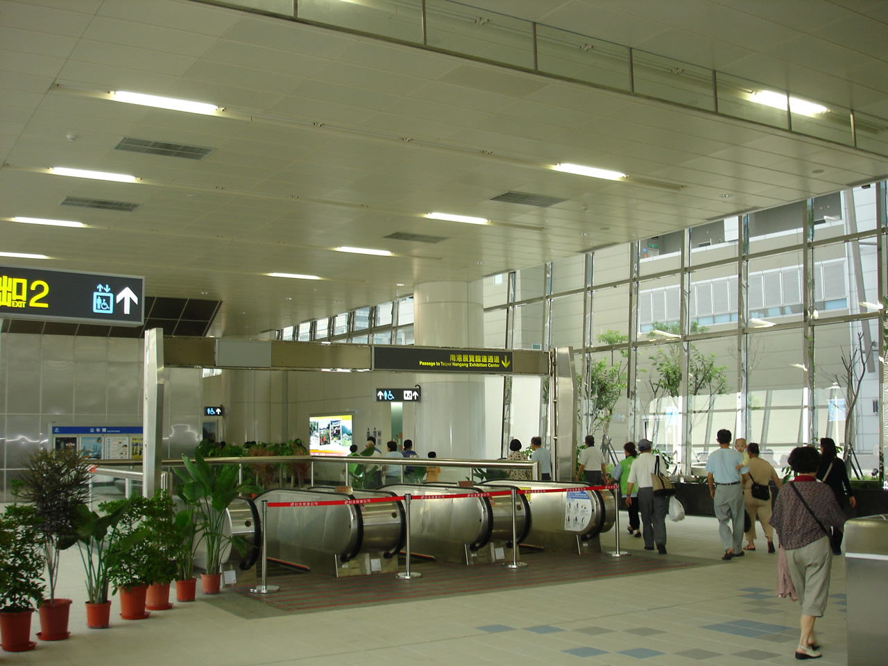 The inner of MRT Taipei Nangang Exhibition Center Station.